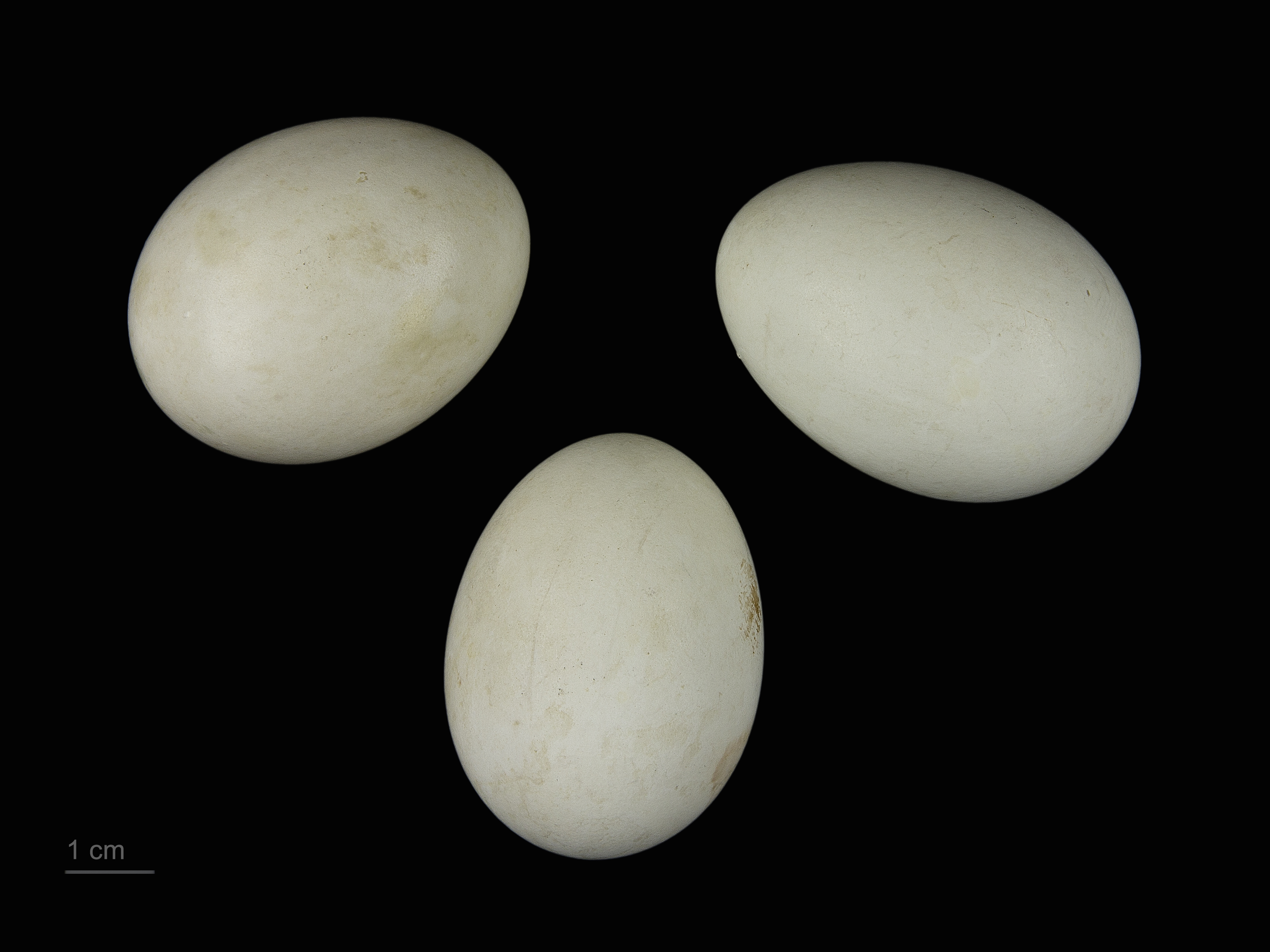 Eggs of shikra Three specimens of the same spawn ; collection of Jacques Perrin de Brichambaut.